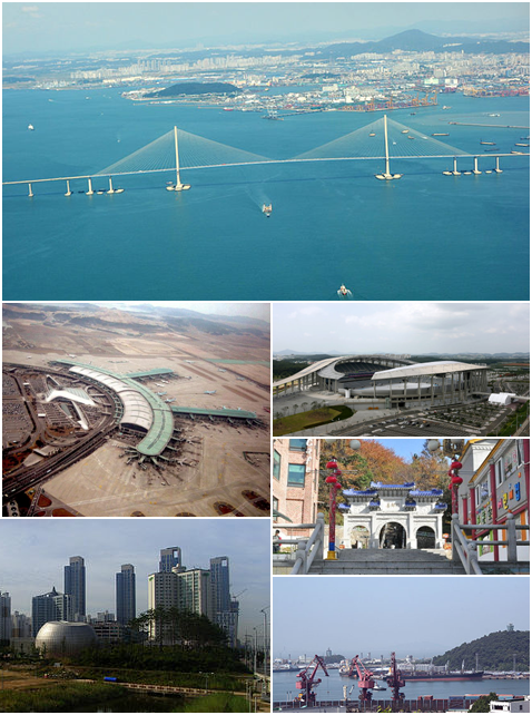 Montage of Incheon